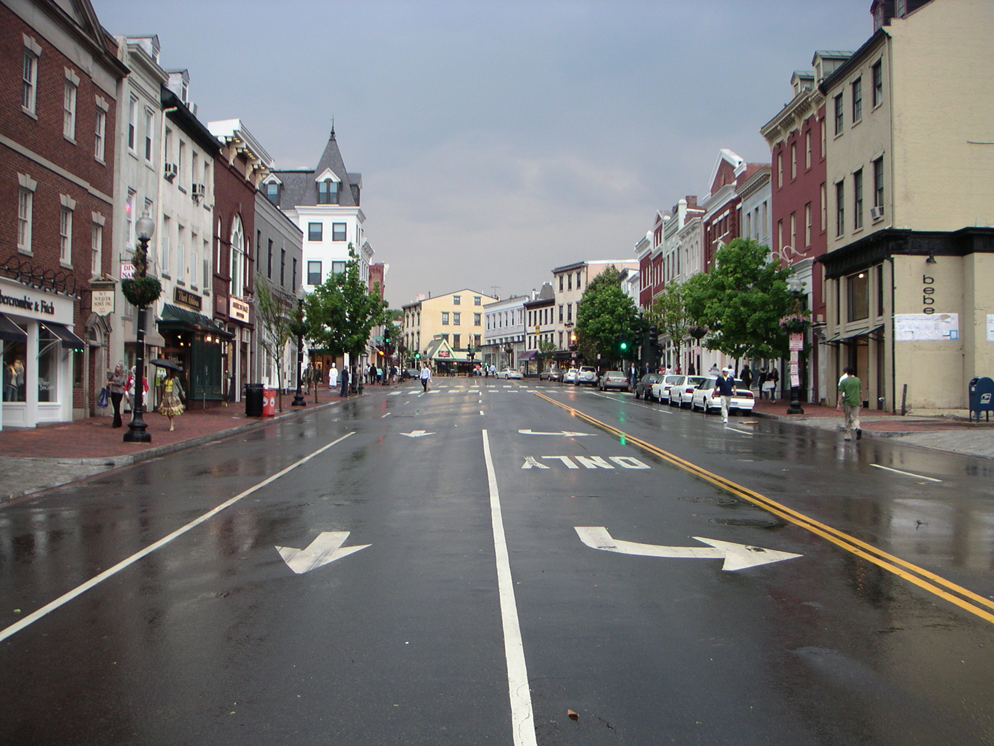 Shops along Wisconsin Avenue, as viewed from M Street, N.W., in the Georgetown neighborhood of Washington, D.C. Built in the 1800s, the shops are recognized as contributing properties to the Georgetown Historic District, a National Historic Landmark.